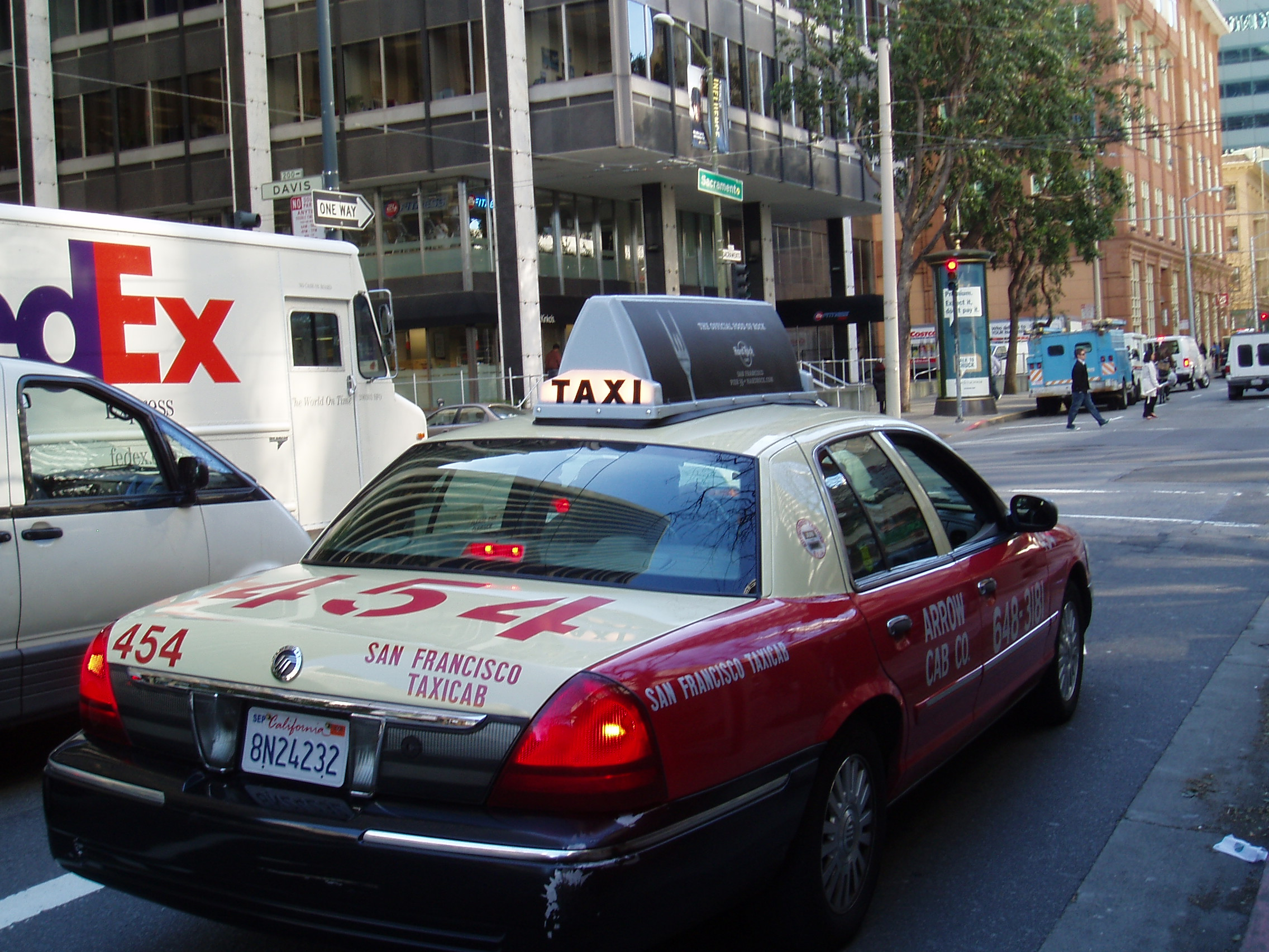 A taxicab in San Francisco (traffic light on red)